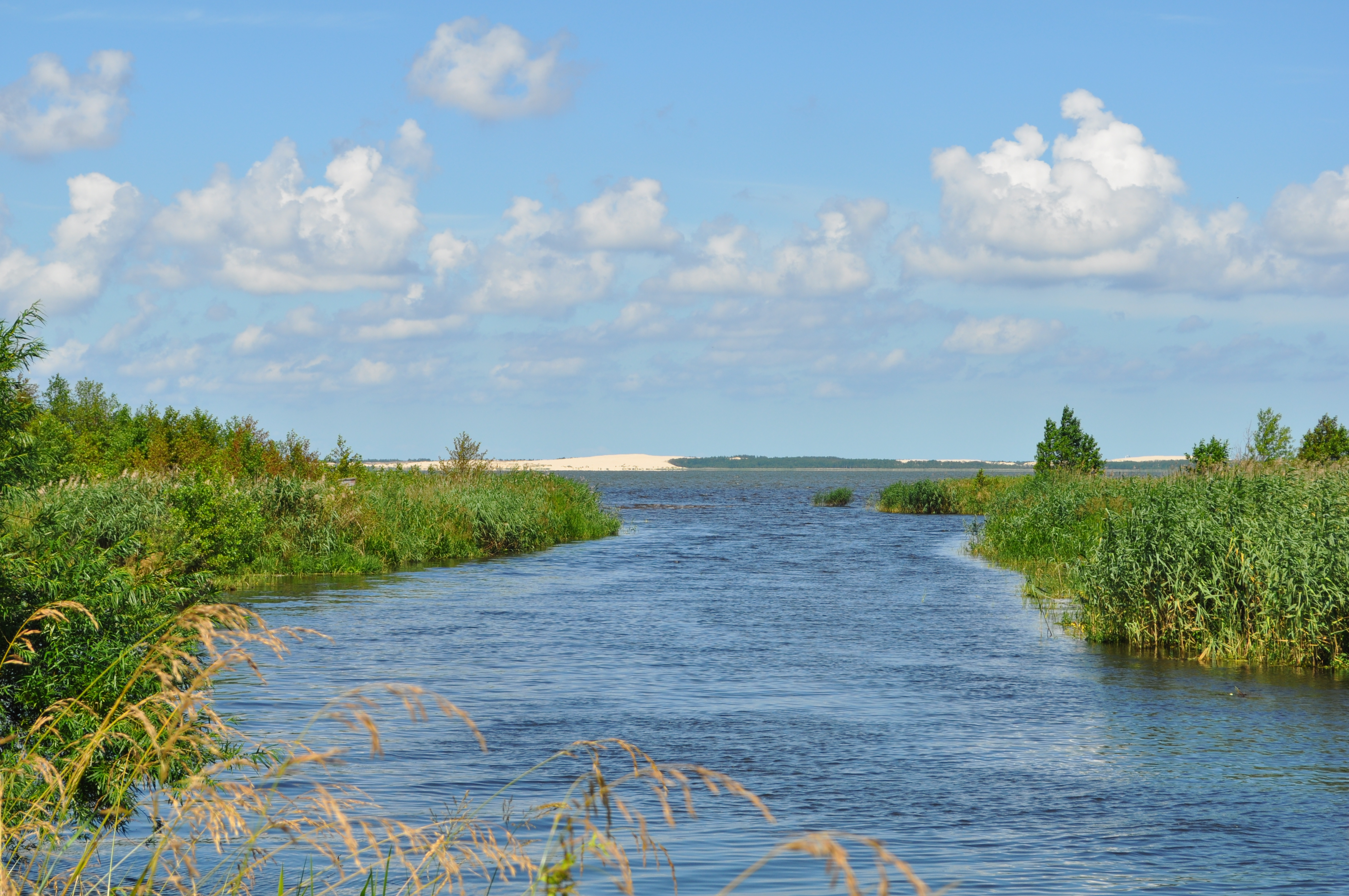 Łeba river and Łebsko lake